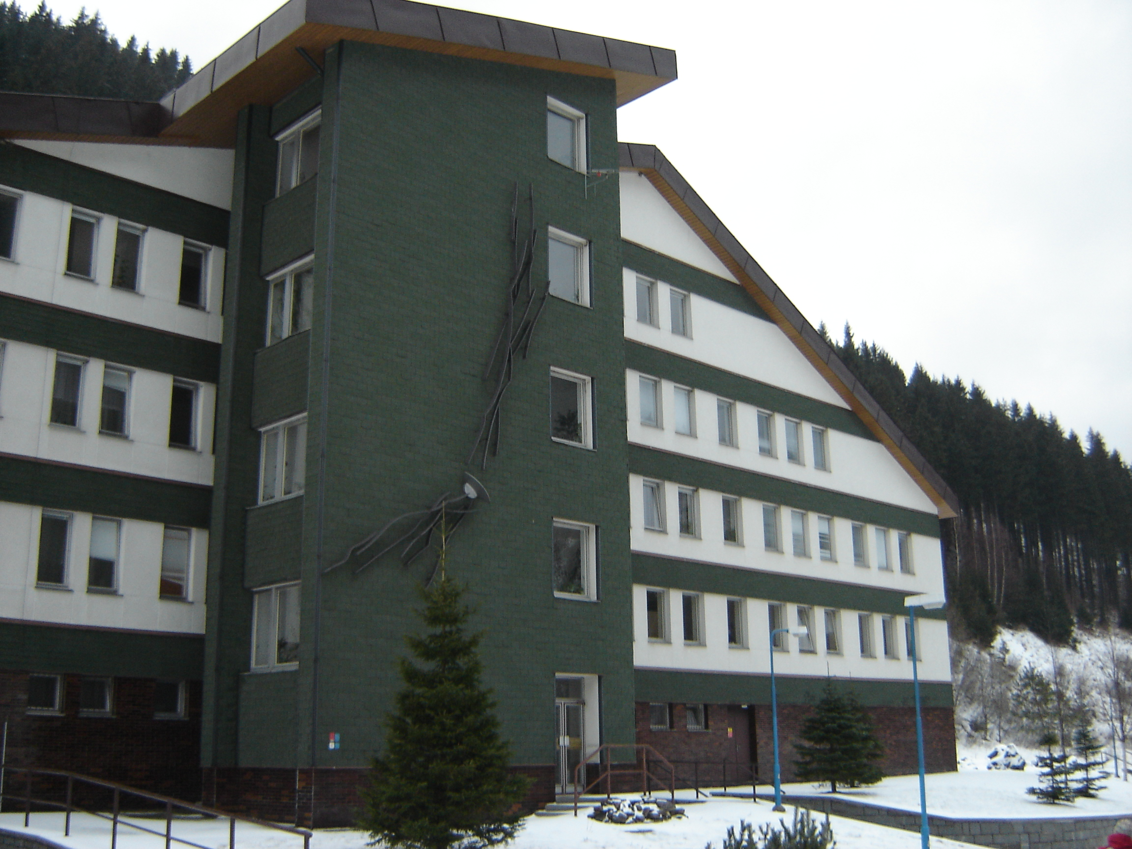 Dlouhé Stráně, office building